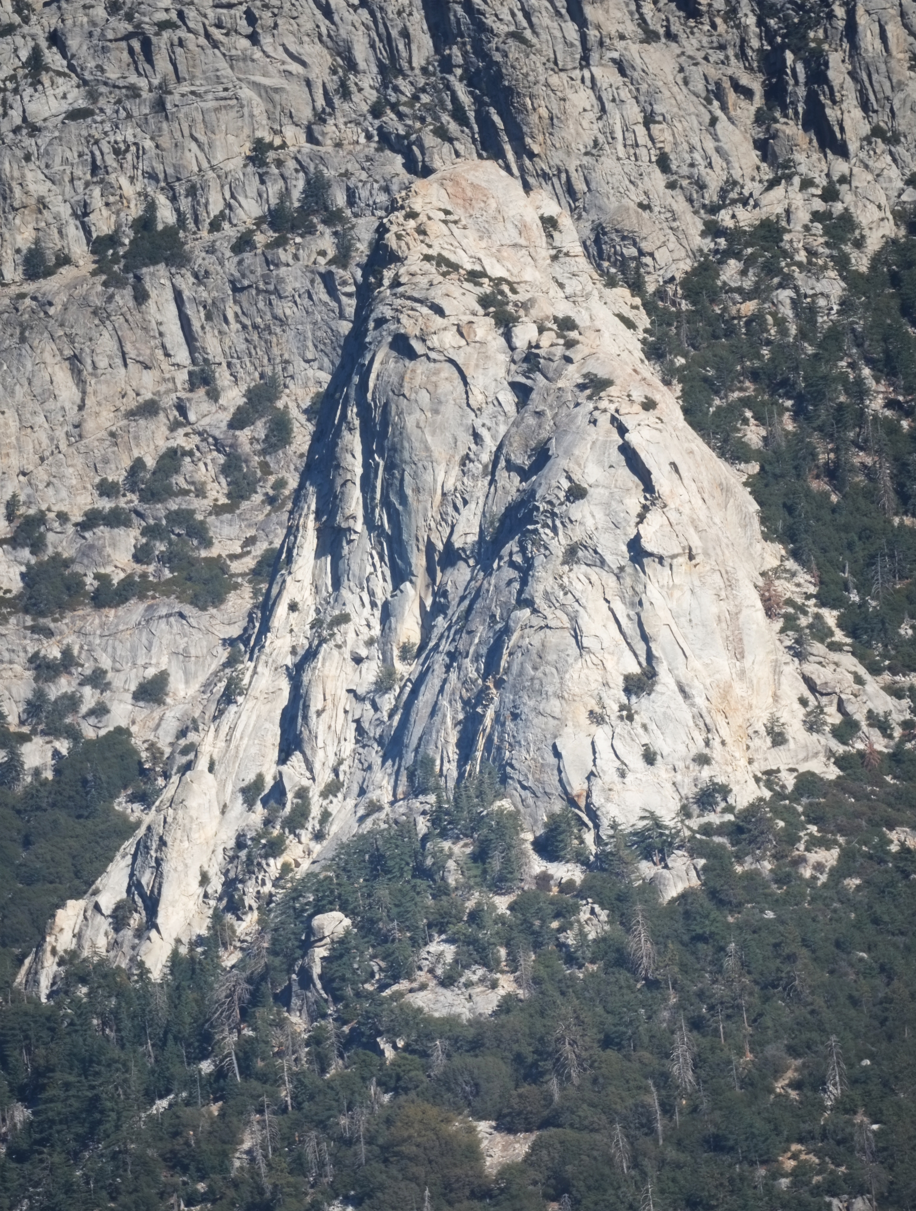 Tahquitz Rock, viewed from Pine Cove, CA